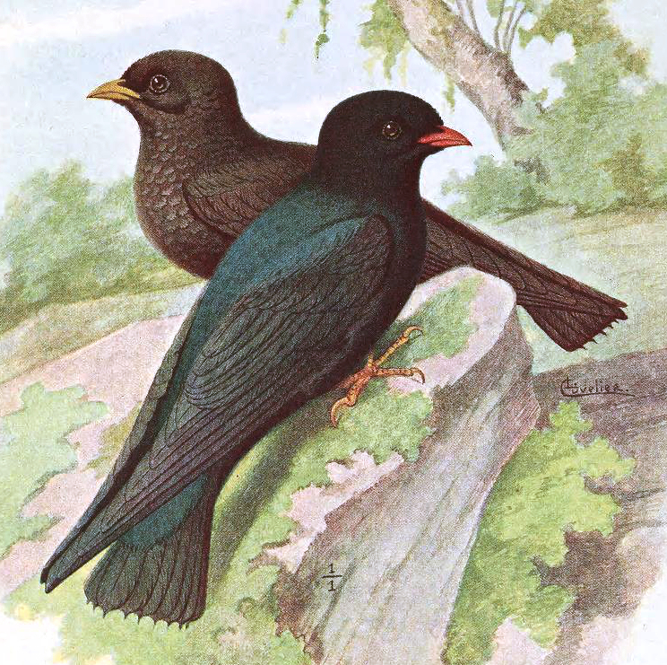 Pseudochelidon eurystomina